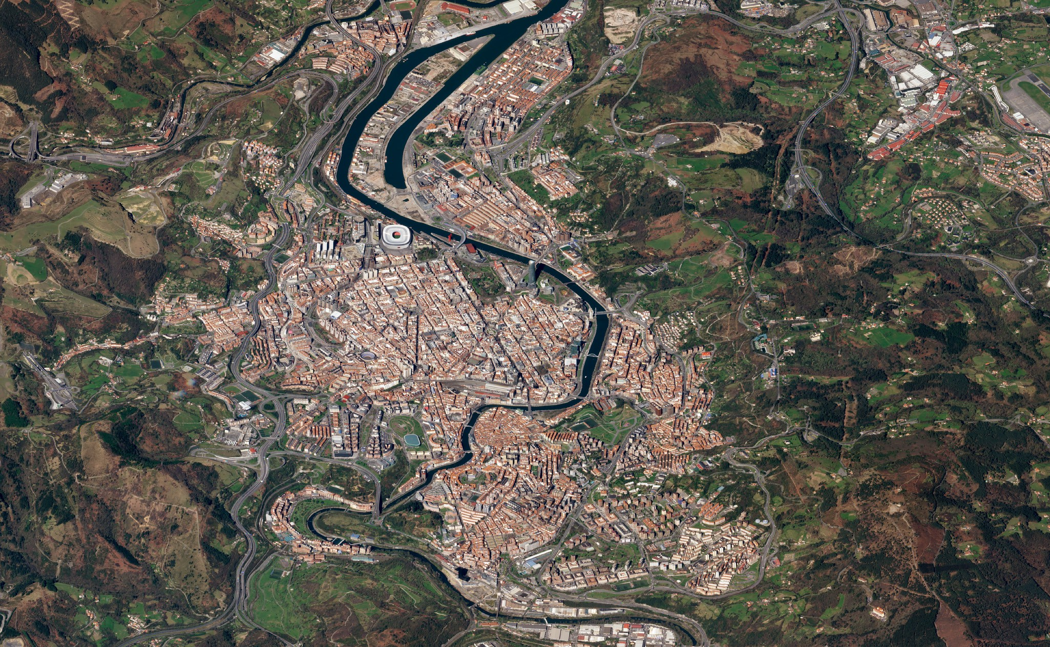 SkySat satellite image of Bilbao, Spain